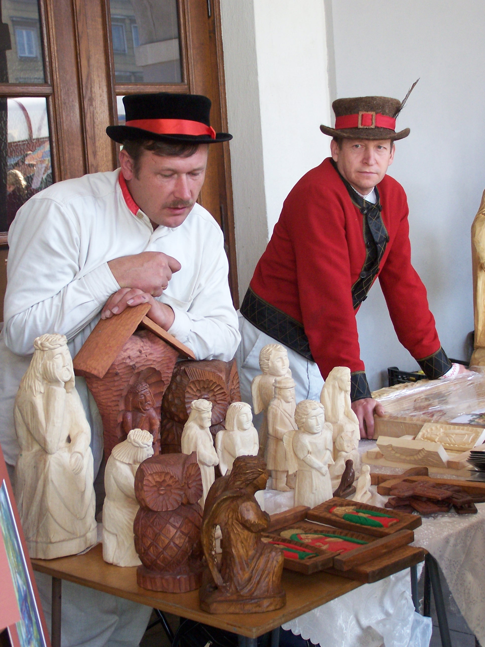 Sculptors: Stanisław Bacławski from Czarnia Kadzidlańska, Poland (on left) and Józef Bacławski from Łyse, Poland (on right)